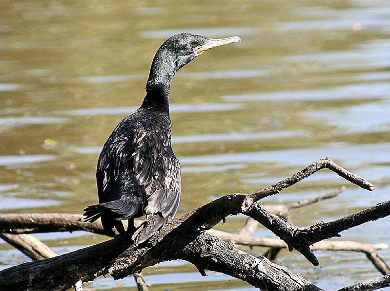 Indian Cormorant Phalacrocorax fuscicollis at Bharatpur, Rajasthan, India. Watermark has been removed using the GIMP resynthesizer plugin.